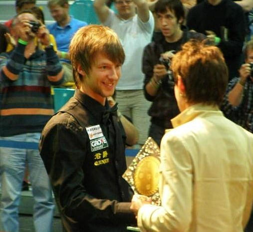 Judd Trump - the winner of the 2010 Wels Open (snooker)